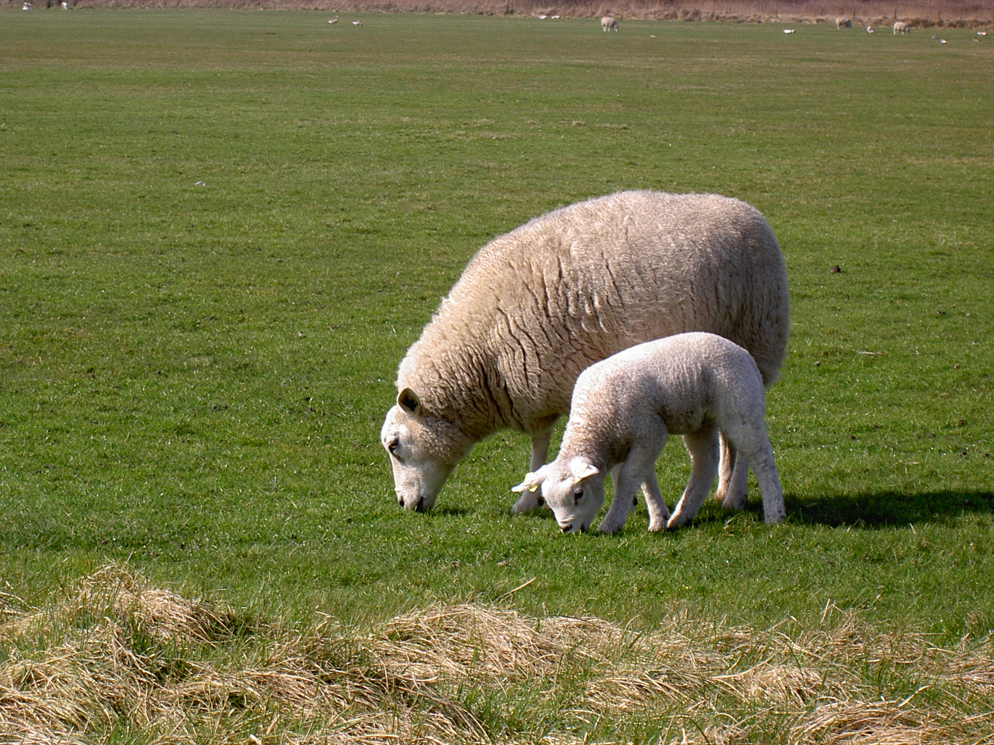 Texel sheep (Texelaar) with lamb on the Noth Sea island Texel (The Netherlands, province Northern Holland)